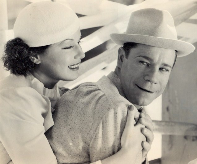 June Travis & Joe E. Brown in Earthworm Tractors - publicity still (cropped : see source)